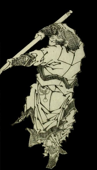 a depiction of Sun Wukong wielding his staff